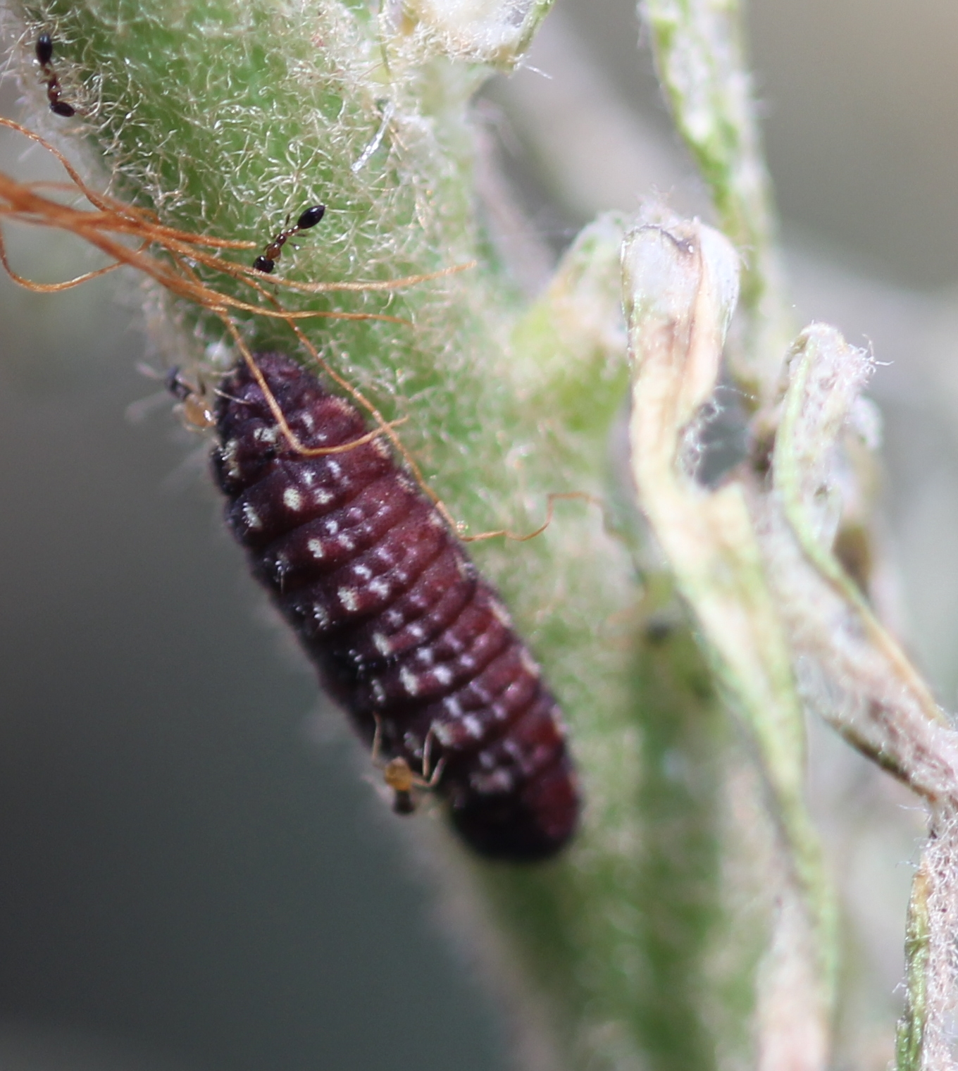 Plains Cupid Early instar caterpillar tended by ants